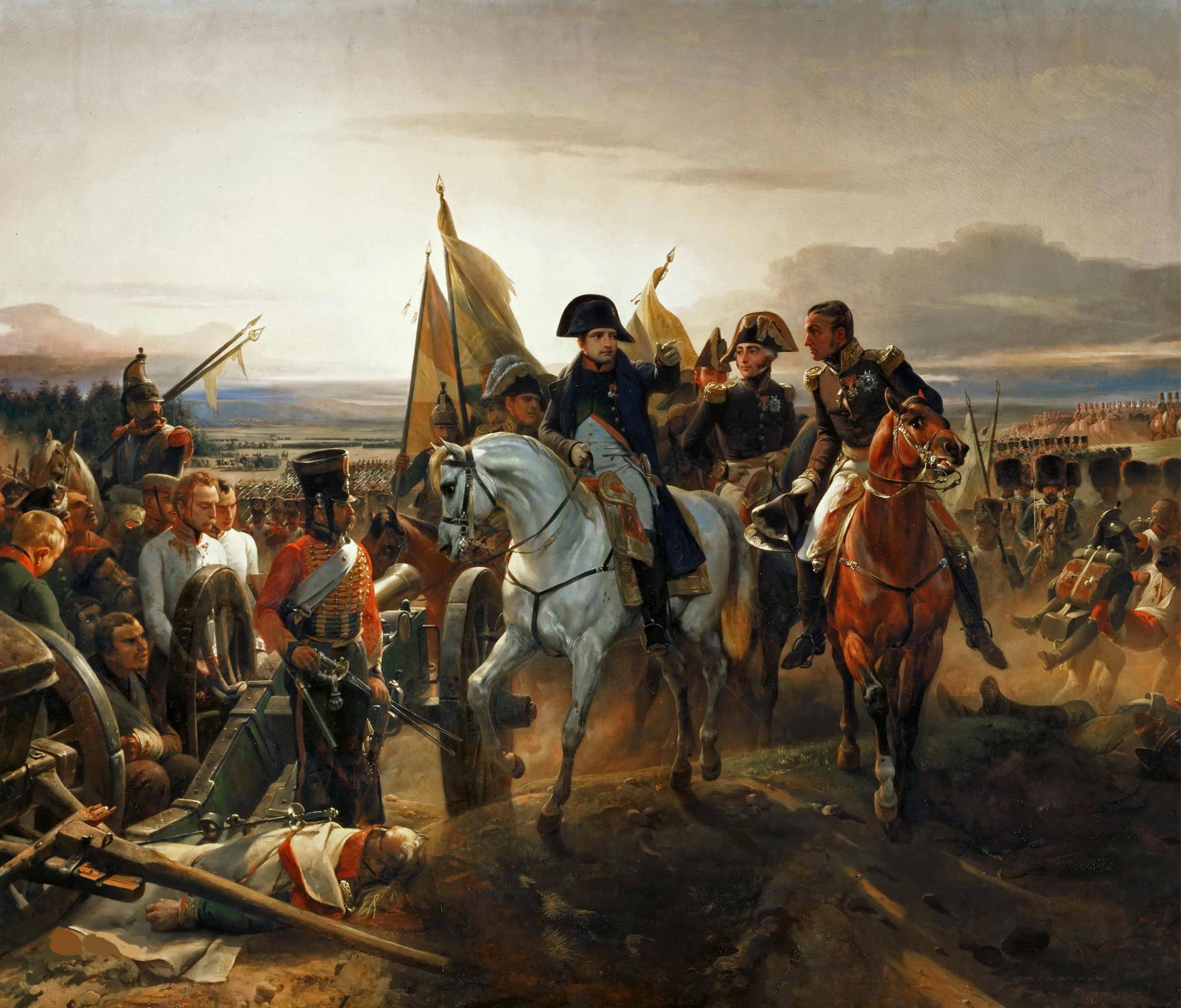 Napoleon at the Battle of Friedland (Schlacht bei Friedland) (1807). The Emperor is depicted giving instructions to general Nicolas Oudinot. Between them is depicted general Etienne de Nansouty and behind the Emperor, on his right is marshal Michel Ney, duke of Elchingen.